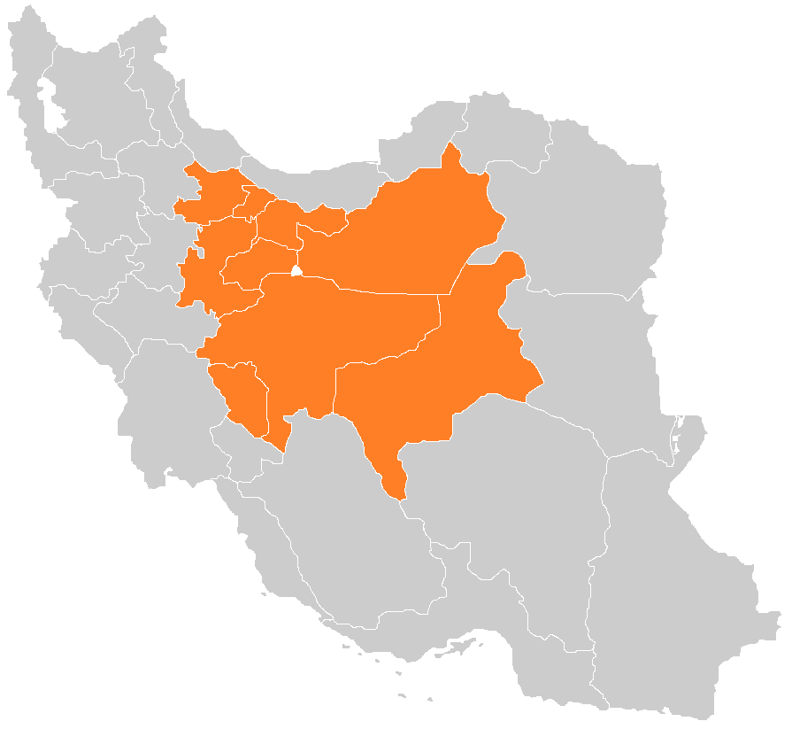 Central Iran Provinces From File:Blank-Map-Iran.PNG